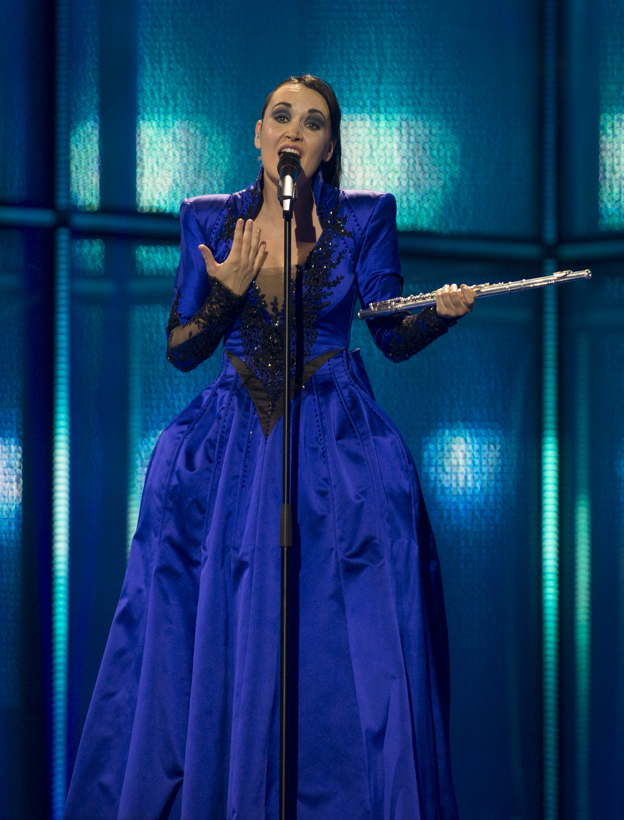 Tinkara Kovač representing Slovenia with the song "Spet (Round and Round)" during the first dress rehearsal of the second semi final of the Eurovision Song Contest 2014 Copenhagen. (Help translate this text)